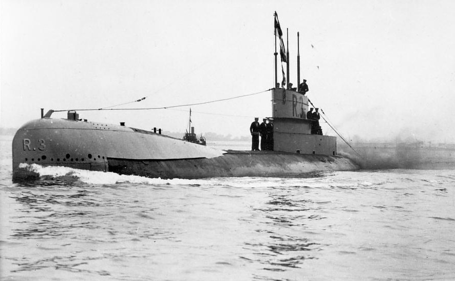 The R3 at sea